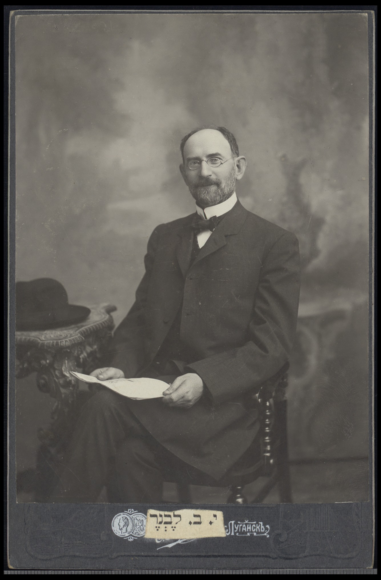 Cabinet card Format photograph of Israel Binyamin Levner, dated 1908.